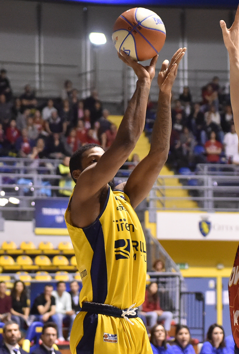 foto © Marco Magosso